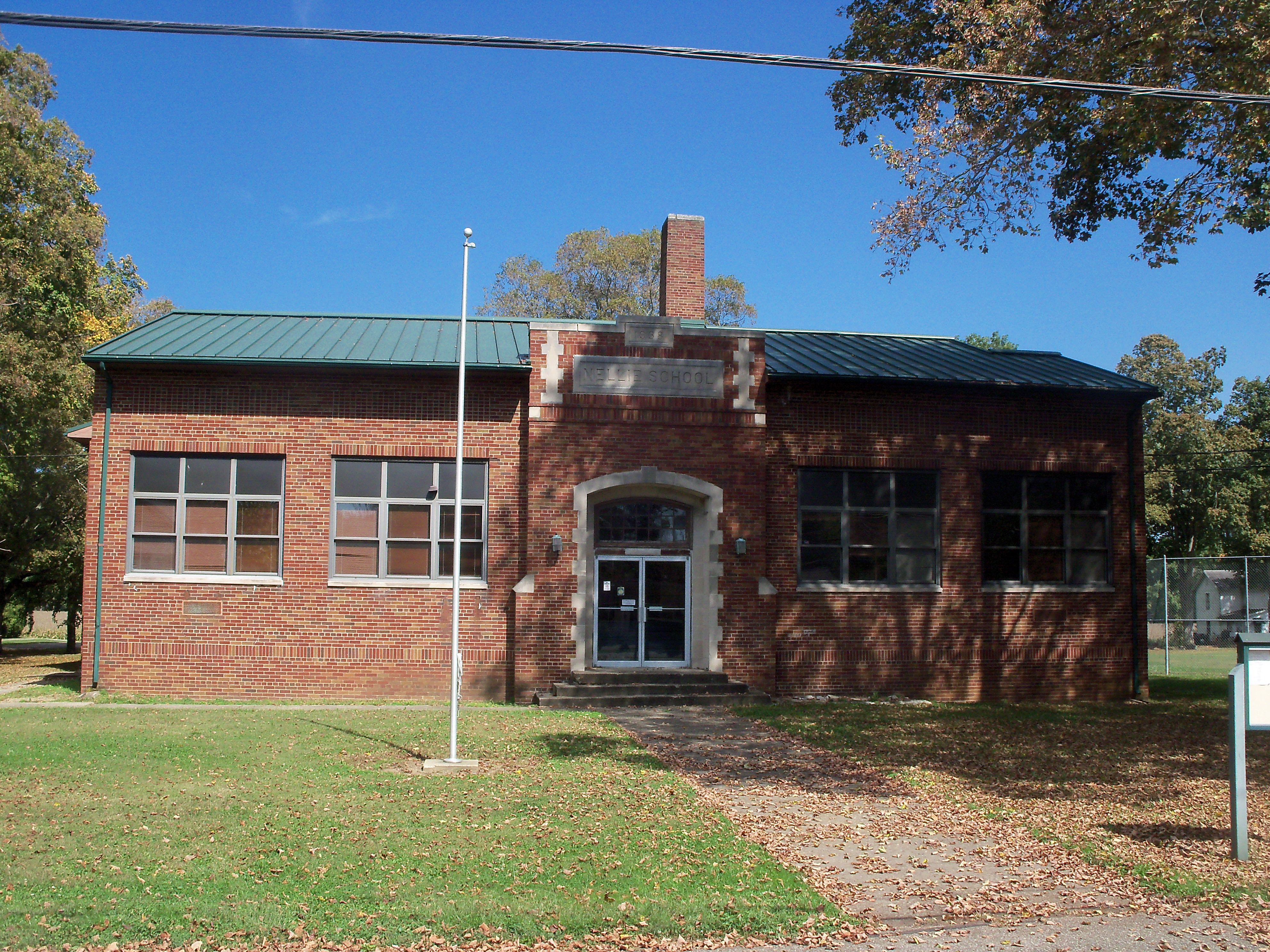 former Nellie School in Nellie, Ohio, now town hall and community building.